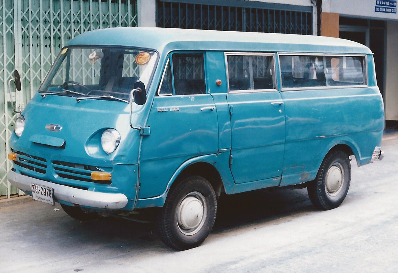 Nissan Homer V641 (August 1968-September 1972) van in Bangkok, Thailand circa 1990